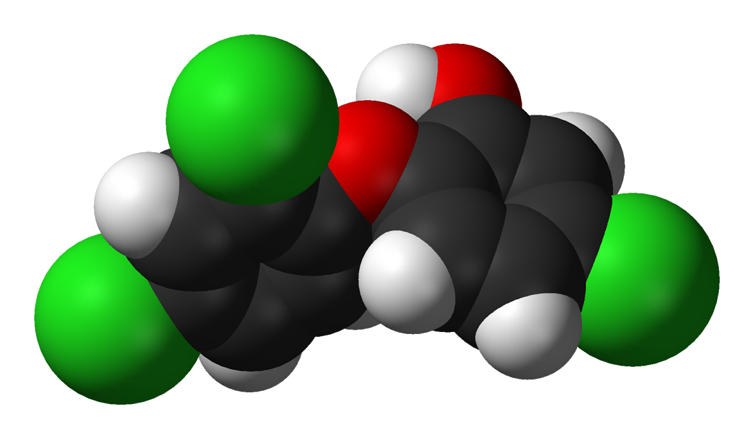 Space-filling model of the triclosan molecule